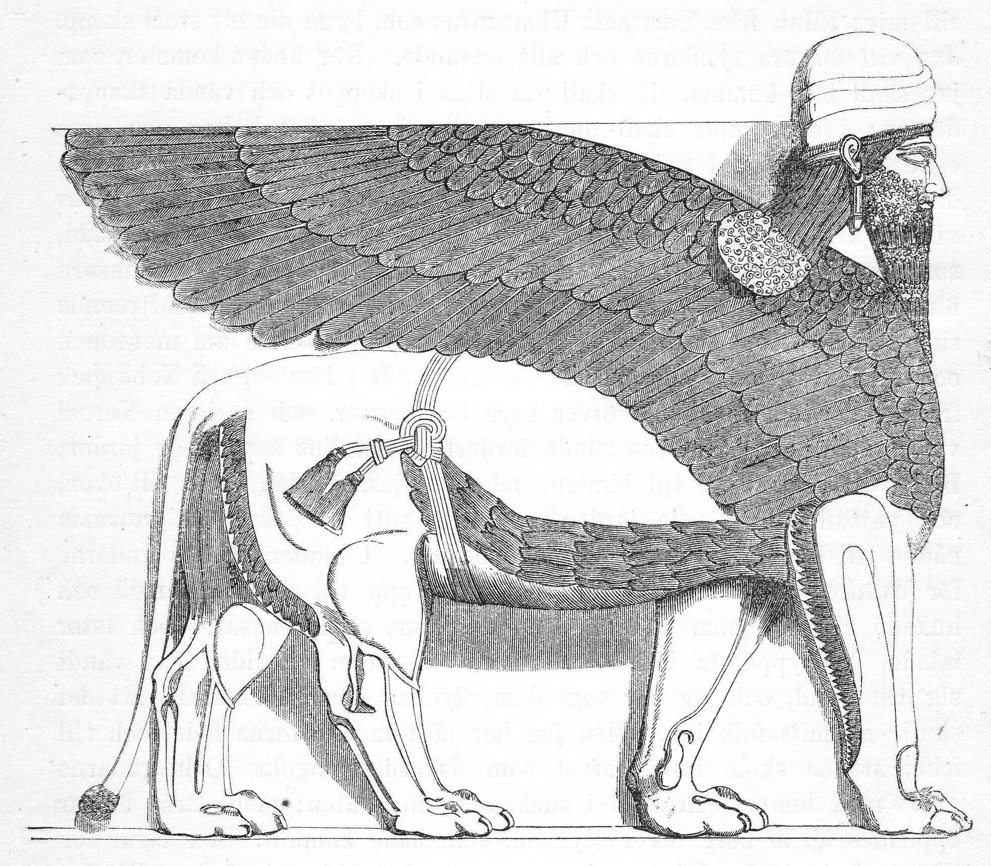 Illustration from "Illustrerad verldshistoria utgifven av E. Wallis. volume I": Imagination of the war-god Nergal